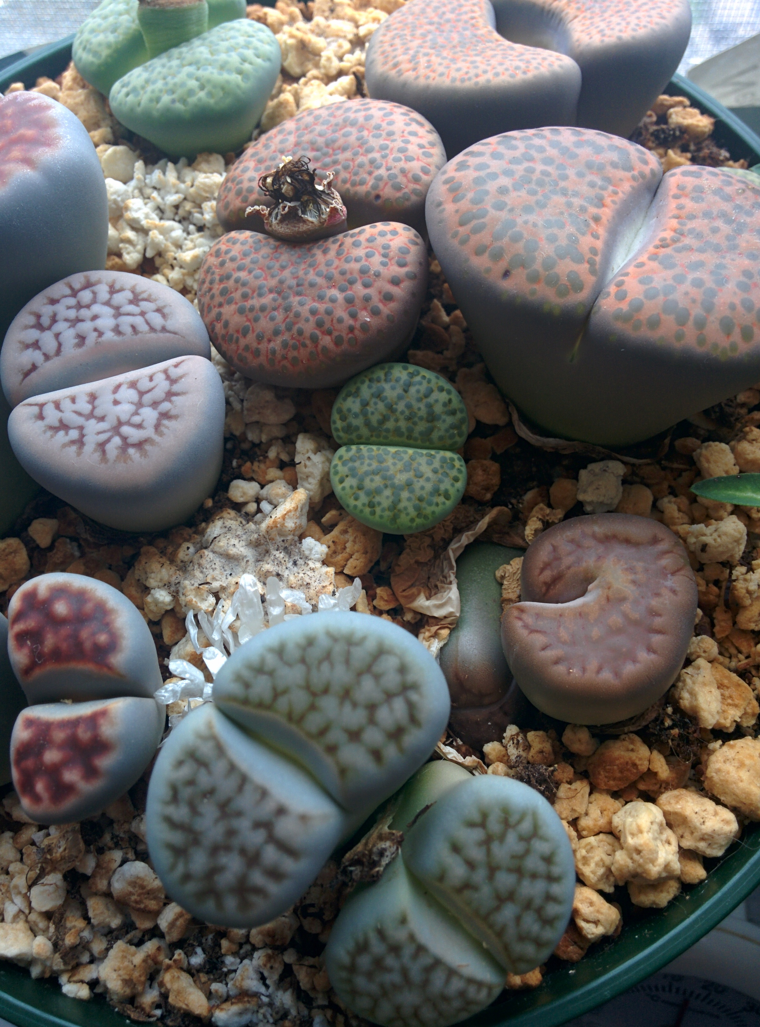 Lithops in cultivation.